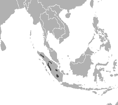 Map of Panthera tigris sumatrae scattering, with national borders added